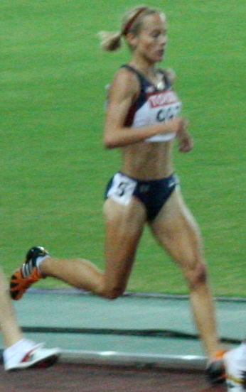 World Athletics Championships 2007 in Osaka - Scene from the women*s 5000 metres final: Jennifer Rhines